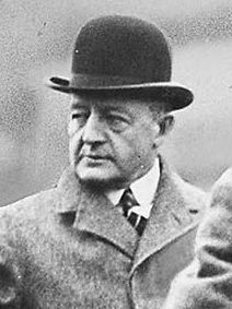 Sir Adam Beck